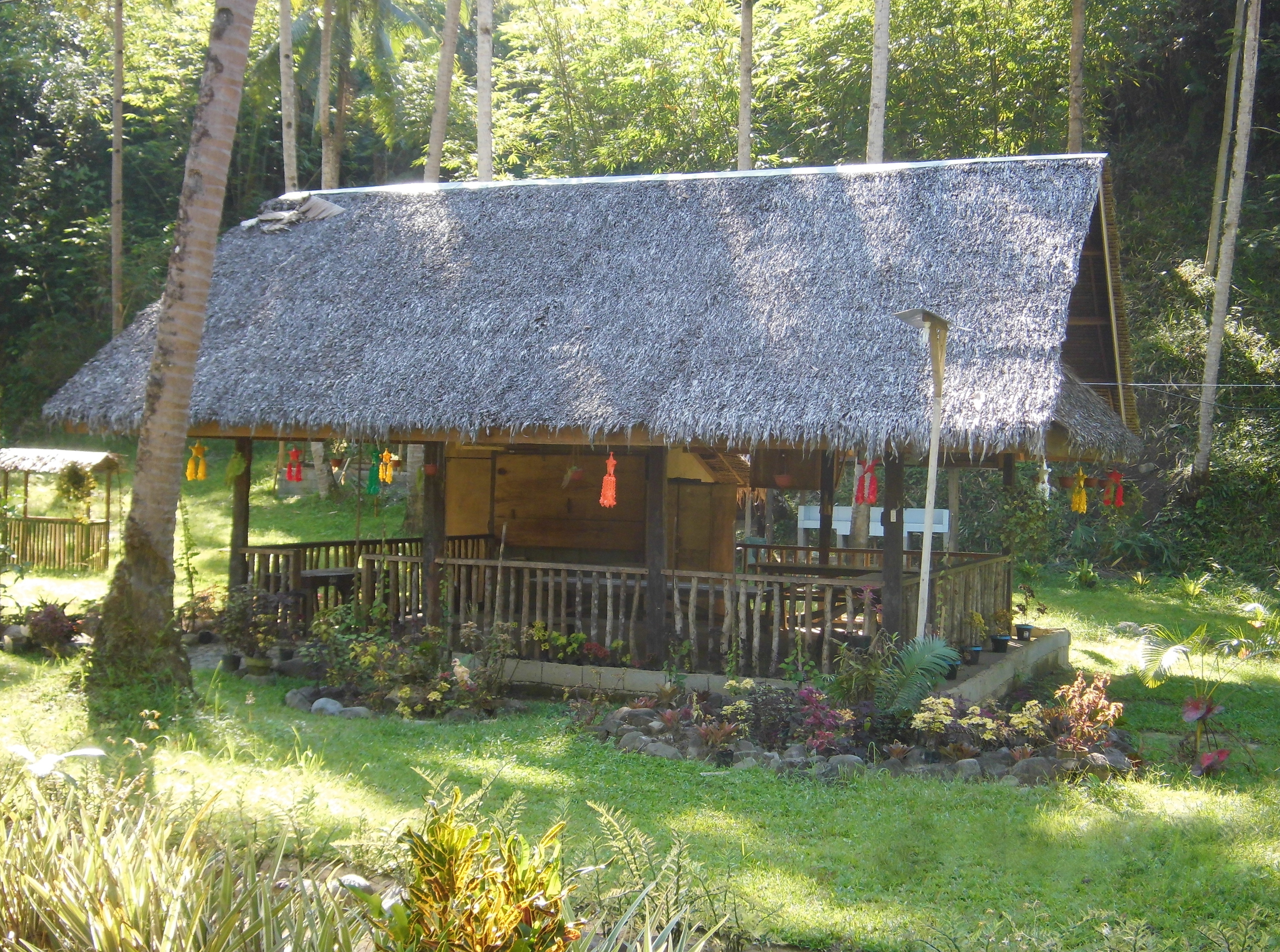 Jungle bath Malibu (Hubason), dancing floor